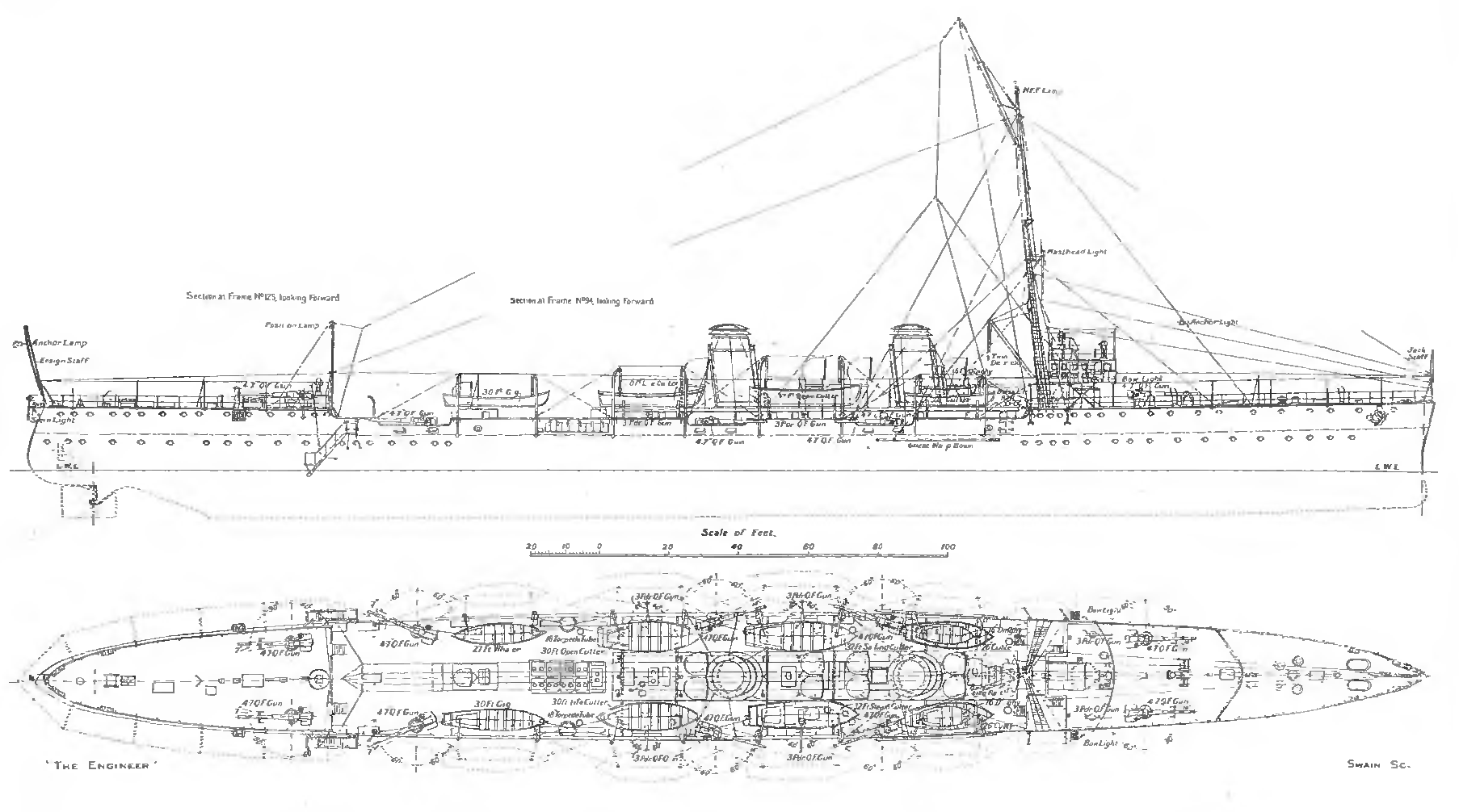 A contemporary line drawing of a Bahia-class cruiser.